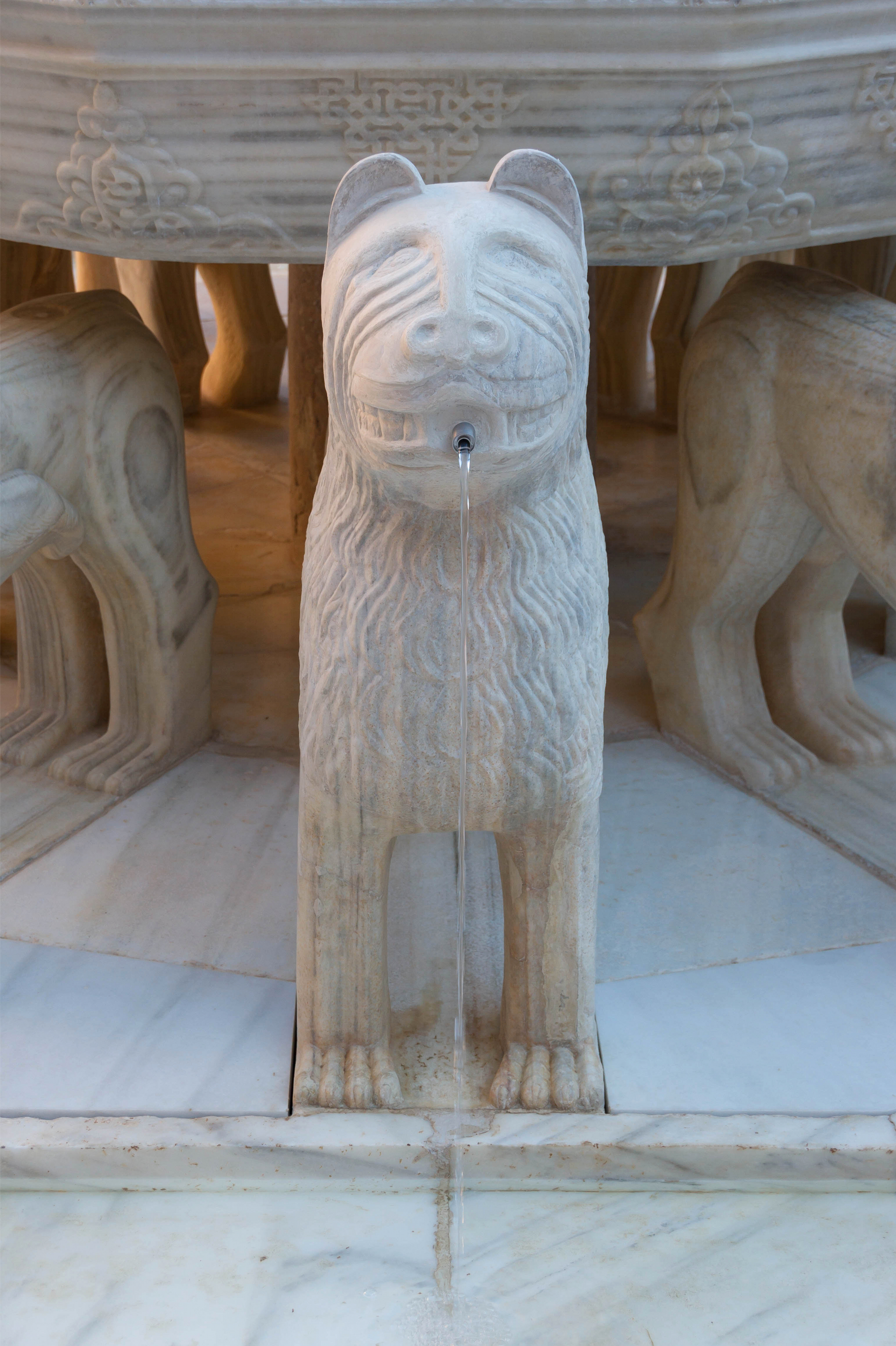 One of the twelve lions of the "Fountain of the Lions" of the Patio de los Leones, after restoration, august 2012, Alhambra, Granada, Spain.